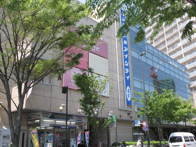 "Yumeria Fente" is Commercial institution in the Seibu Ikebukuro line Oizumi-gakuen station square of Nerima, Tokyo.